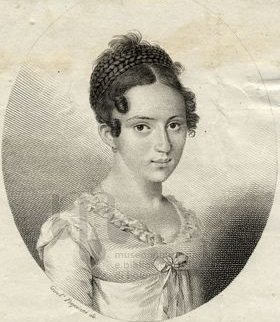 Portrait of the Italian opera singer Carolina Cortesi